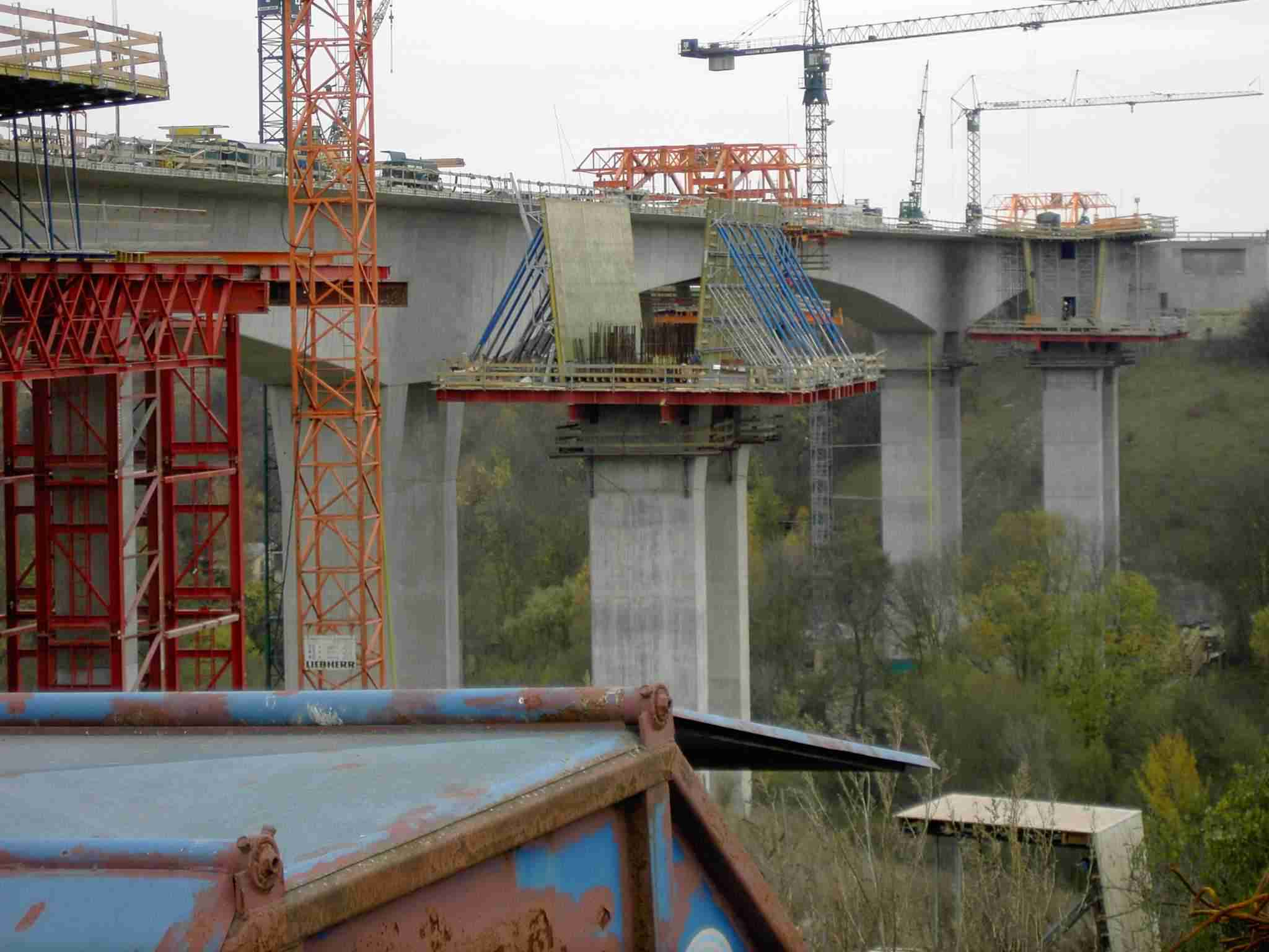 Weidatalbridge, travelling formwork